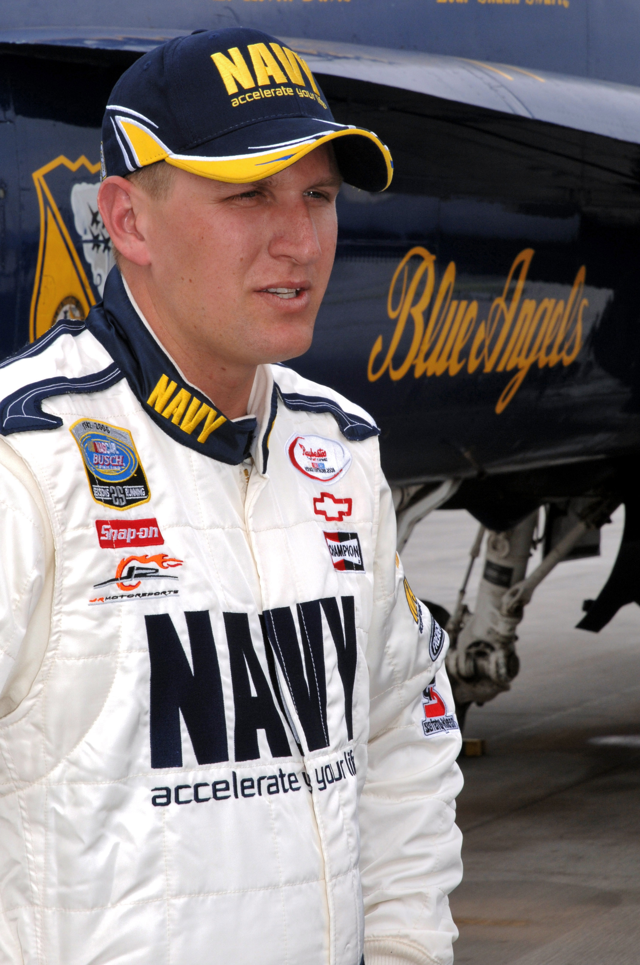 El Centro, Calif. (Feb. 27, 2006) - Busch Series NASCAR driver Mark McFarland conducts an interview with local media after flying with the U.S. Navy flight demonstration team “Blue Angels” on board Naval Air Facility El Centro. McFarland, is the No. 88 driver for the U.S. Navy’s “Accelerate Your Life” Chevrolet Monte Carlo. Team owner and Nextel Cup driver Dale Earnhardt Jr., also received a VIP flight, and took time for an autograph session with Sailors and Marines on board the Air Facility. U.S. Navy photo by